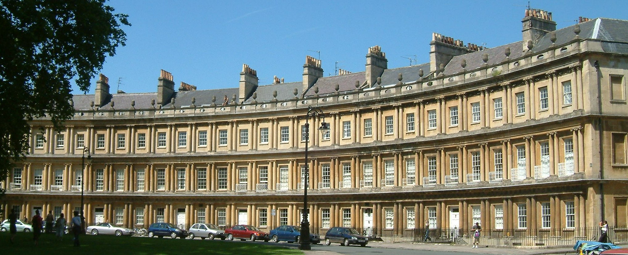 The Circus, Bath, England, United-Kingdom